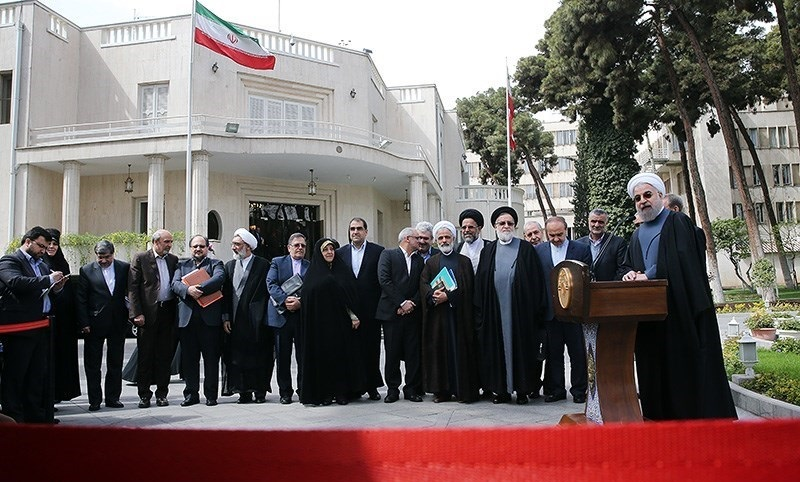 Iranian President Hassan Rouhani speechs after a cabinet meeting in Saadabad Palace